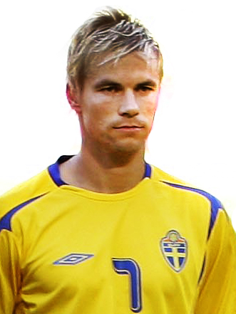 Niclas Alexandersson, Swedish footballer, during the 2006 World Cup. Cropped from team photo.